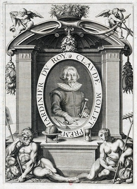 Portrait of Claude Mollet. In 1651, Henrich Keyser, bookseller and printer who owned the most renowned publishing house in Sweden, printed André Mollet’s treatise in three simultaneous editions in Stockholm, in French (Le jardin de plaisir), in a German translation by Gregorius Geijer (Der Lust Gartten) and in Swedish (Lustgård), whose translator is unknown.